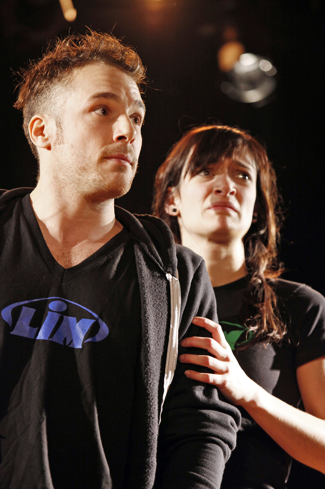 (DESCRIPTION). The Ligue d'improvisation montréalaise (LIM) is a league of improvisational theater based in Montreal, Quebec, Canada.